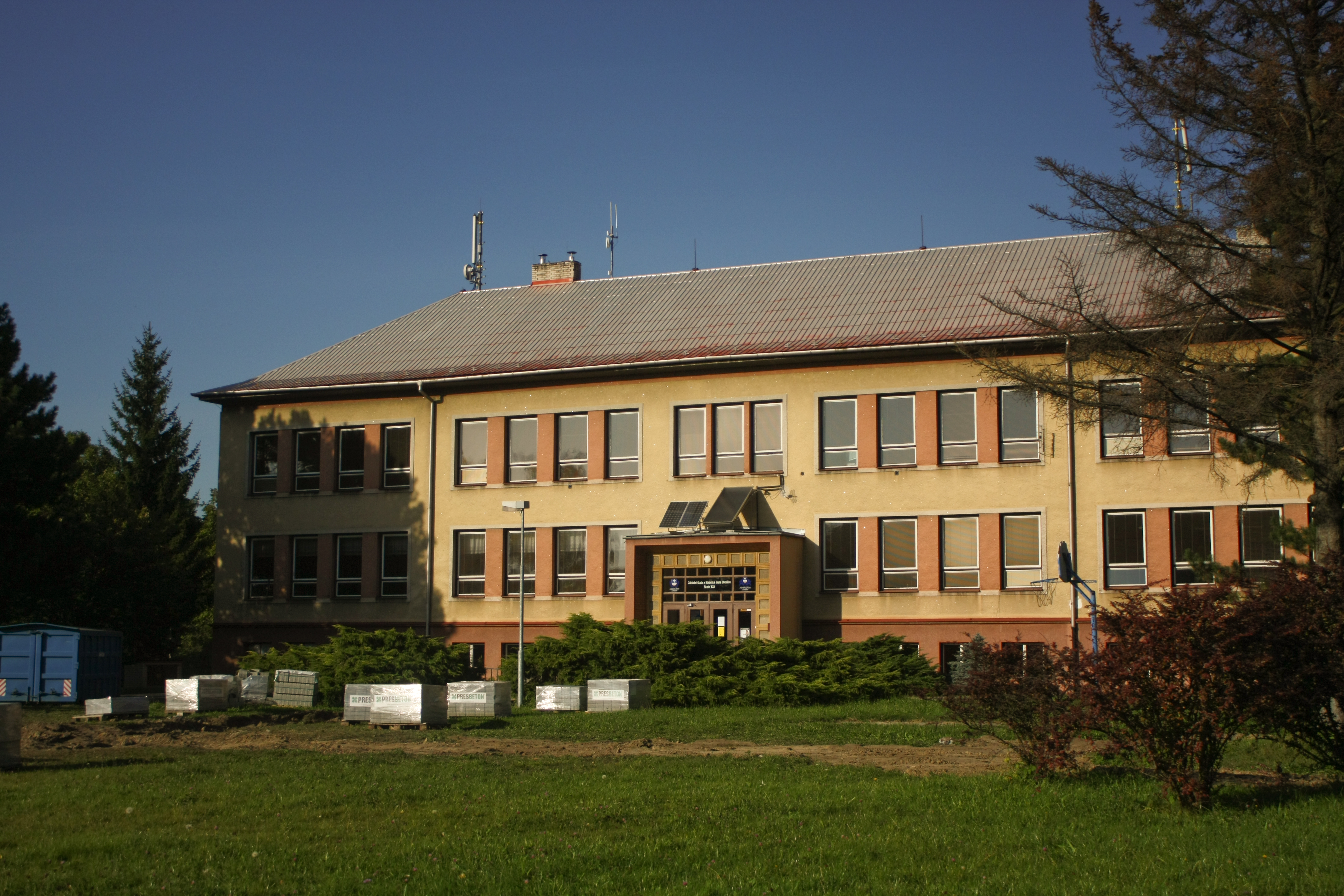 Chvalčov, Kroměříž District, Czech Republic Object location49° 23′ 32″ N, 17° 42′ 19″ E This photograph was taken within the scope of the Czech 'Photo Workshops' grant.